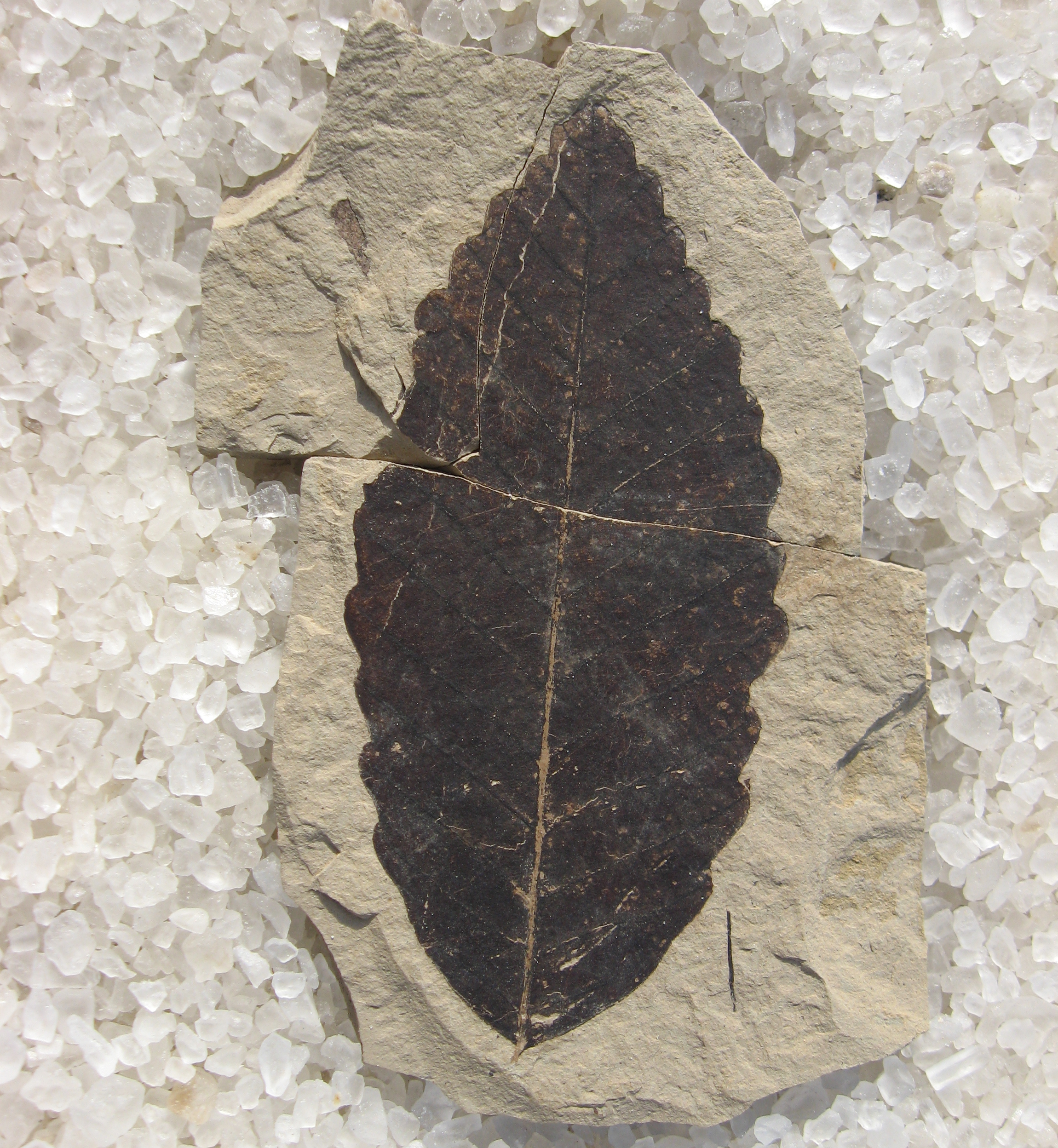 An 8 cm (3.1 in) tall fossil leaf from the extinct beech species Fagopsis undulata. 49 million years old, Klondike Mountain Formation, Republic, Washington. Stonerose Interpretive Center Collections# SR 08-33-07.